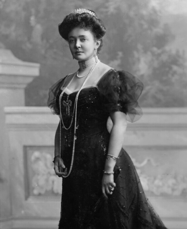 This is a picture of Princess Louise Marguerite of Prussia. This photograph is courtesy of the Victoria and Albert Museum.